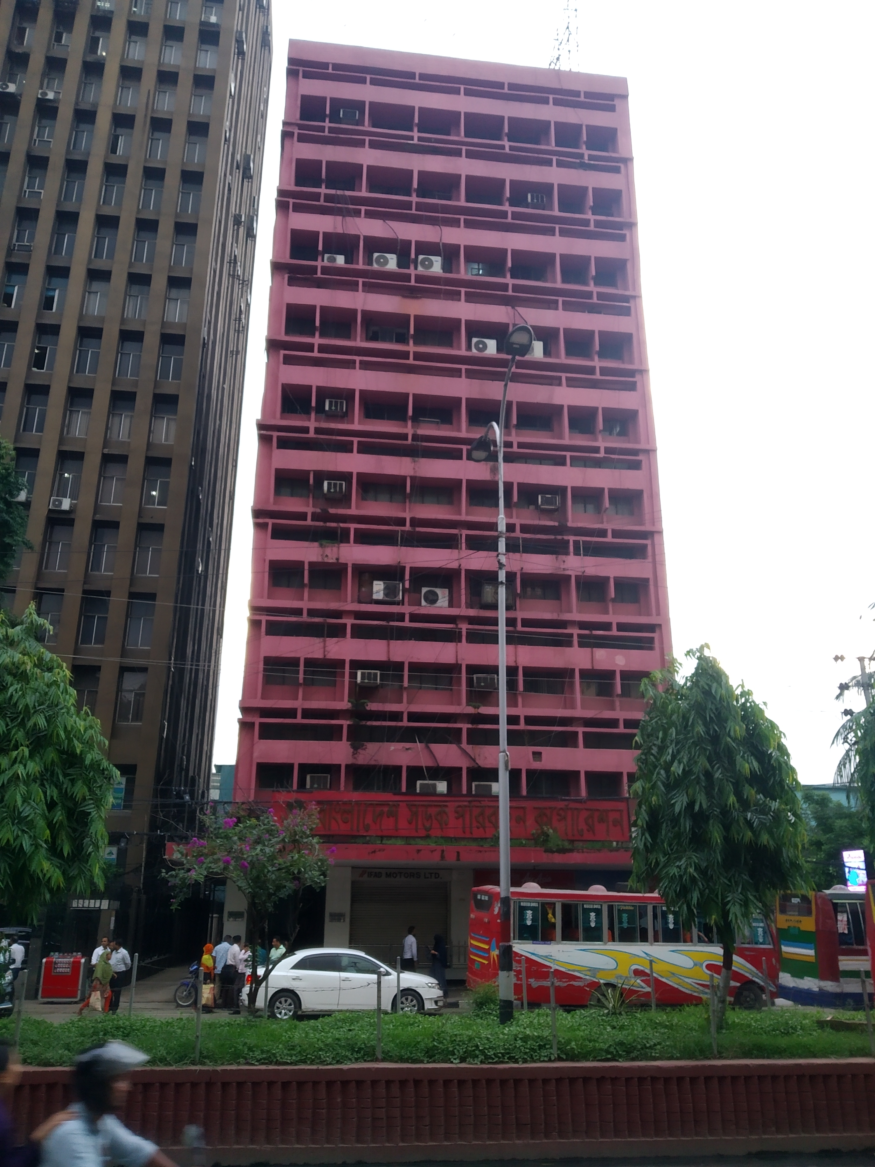 The bhavan is located near Dilkusha